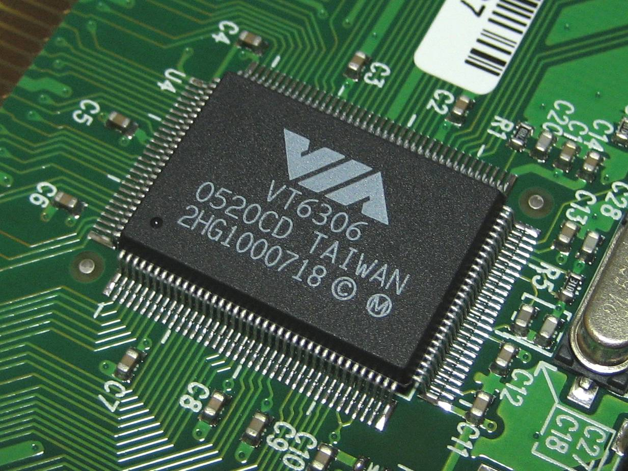 VIA VT6306 is a FireWire (IEEE1394) controller chip on Buffalo IFC-ILP4.